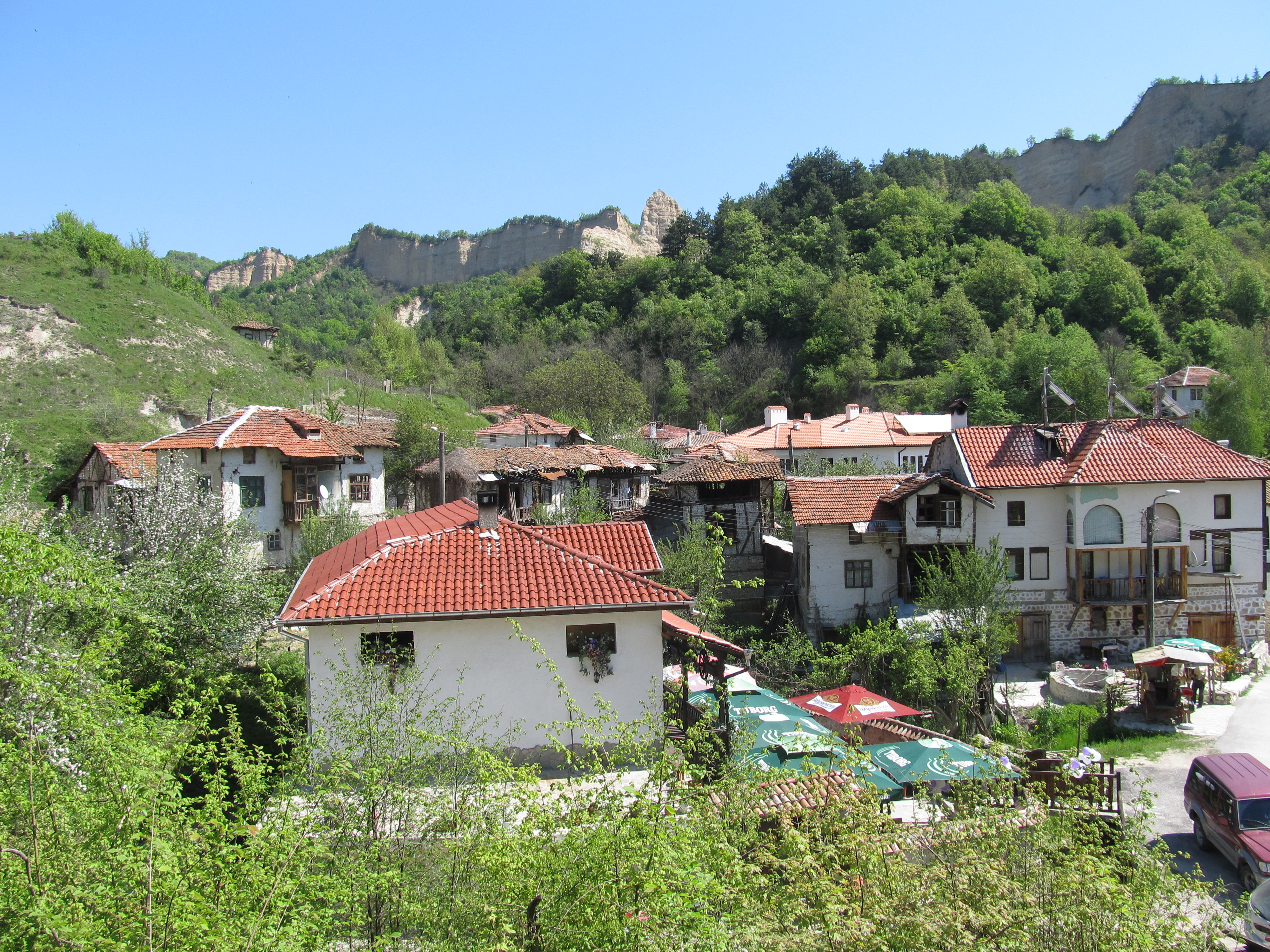 View from the village Rozhen, Bulgaria